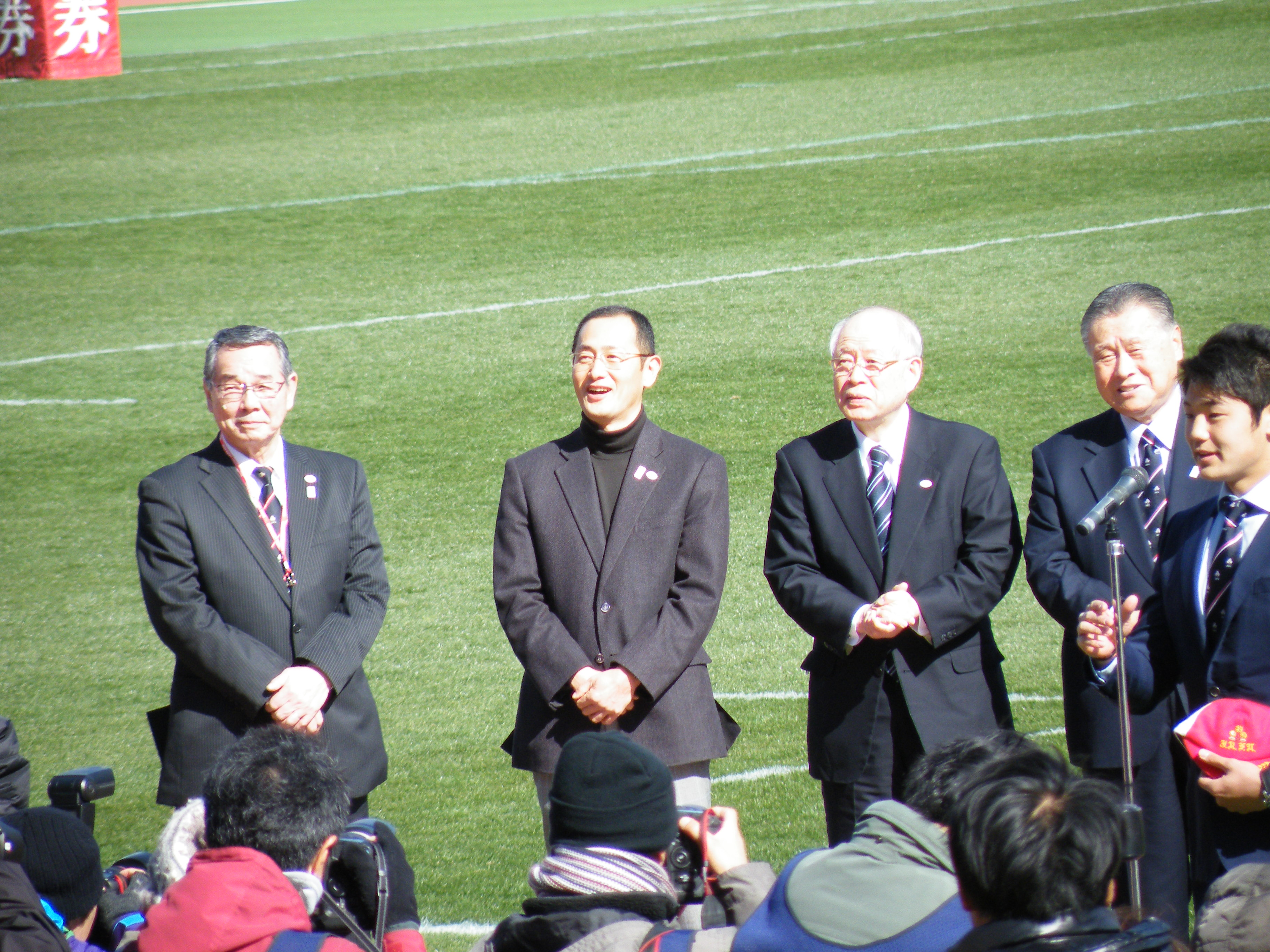 50th All Japan Rugby Football Championship Final, Pre-Ceremony. Tatsuzō Yabe, Shinya Yamanaka, Ryōji Noyori, Yoshirō Mori and Yoshikazu Fujita